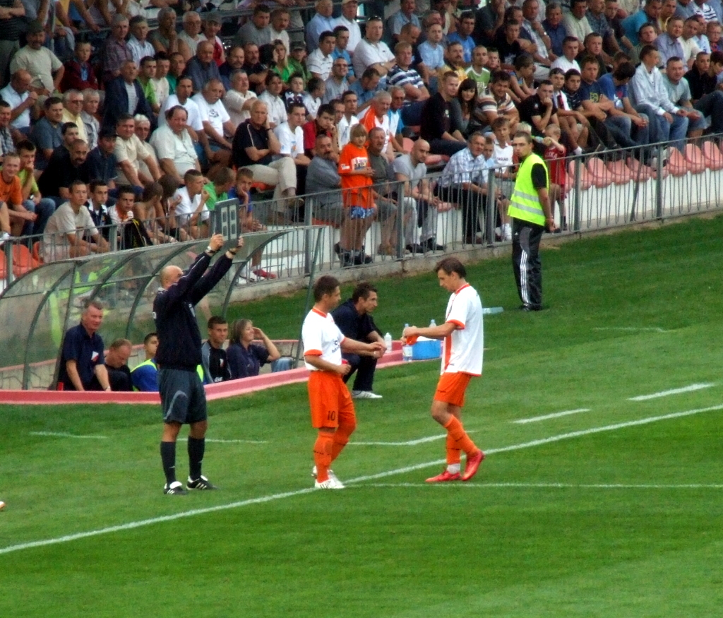 KSZO Ostrowiec football players Tomasz Żelazowski (No. 10) and Krystian Kanarski (on right)